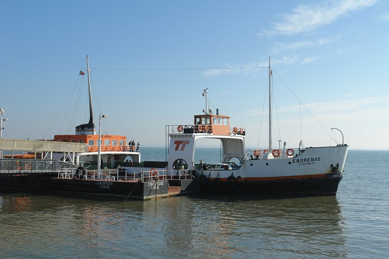 IMO Number: 8966767 MMSI Number: 263701750 Callsign: CSMP Length: 49 m Beam: 11 m Photographer: Osvaldo Gago